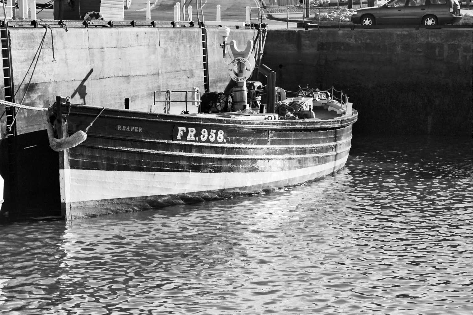 The sailing fifie, Reaper, berthed in her home of Anstruther in Fife